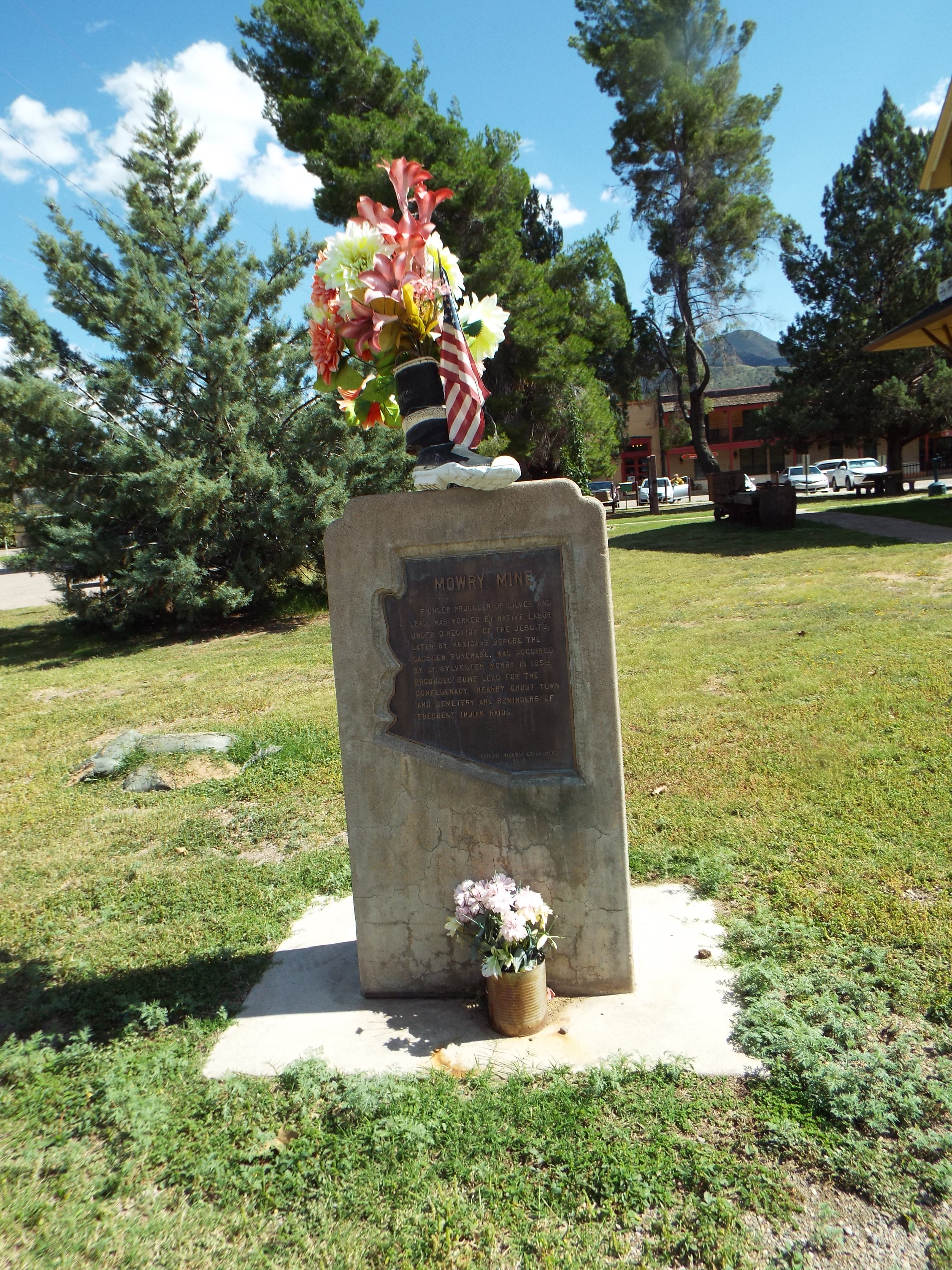 The Mowry Mine Historical Marker in Patagonia, Az